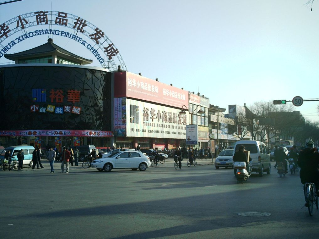 Photo of an intersection in Baoding, China